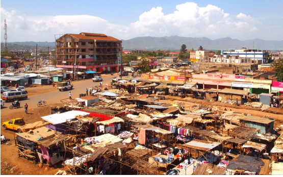 Kondele slums